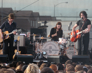 The Racontuers playing at Vegoose 2006